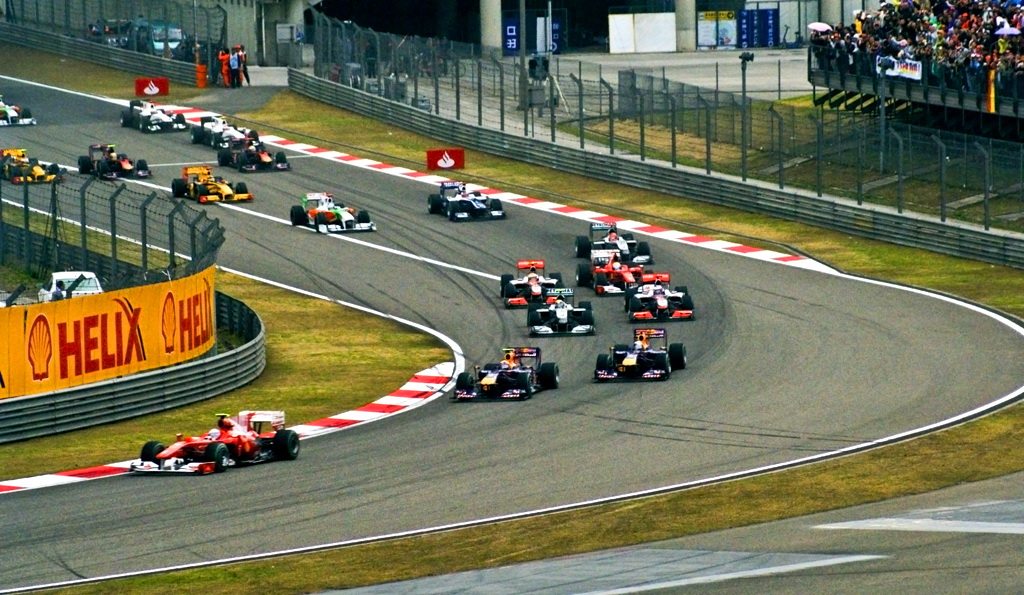 Just a few seconds after the beginning of the race.